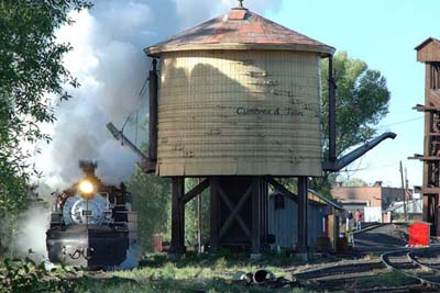 C&TS K-36, Passing the Chama Water Tank.